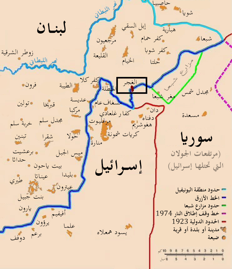 Map showing the Blue Line demarcation line between Lebanon and Israel, established by the UN after the Israeli withdrawal from southern Lebanon after its short 1978 invasion called "Operation Litani". It follows the 1949 cease-fire line, also known as the Green Line, as well as the somewhat contested Lebanese-Syrian border towards the Israeli-occupied Golan Heights. The map is made by Thomas Blomberg, using the UNIFIL map, deployment as of July 2006 as source.